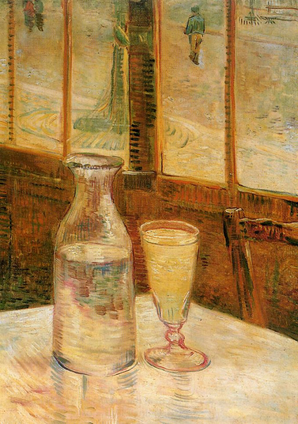 Still Life with Absinthe